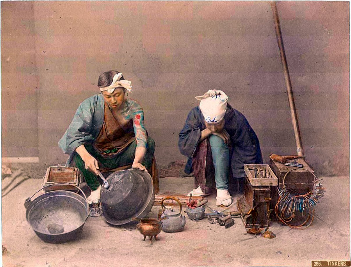 Albumen - Hand Colored